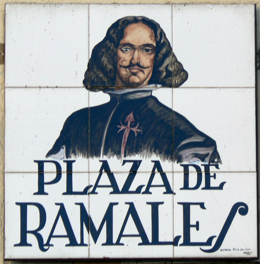 Sign of Plaza de Ramales (square, Centro district) in Madrid (Spain).